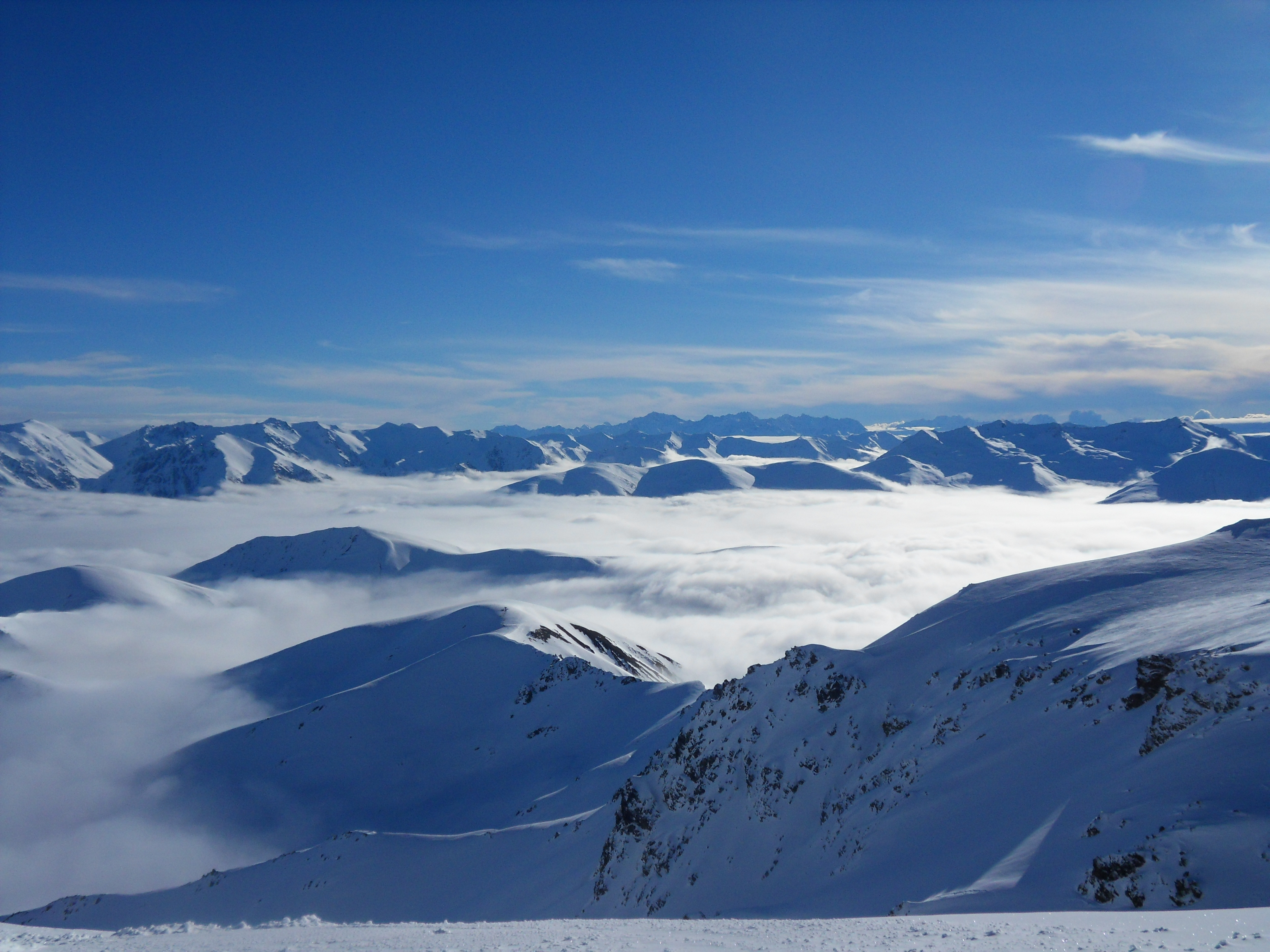 Southern Alps from Mt Hutt, New Zealand